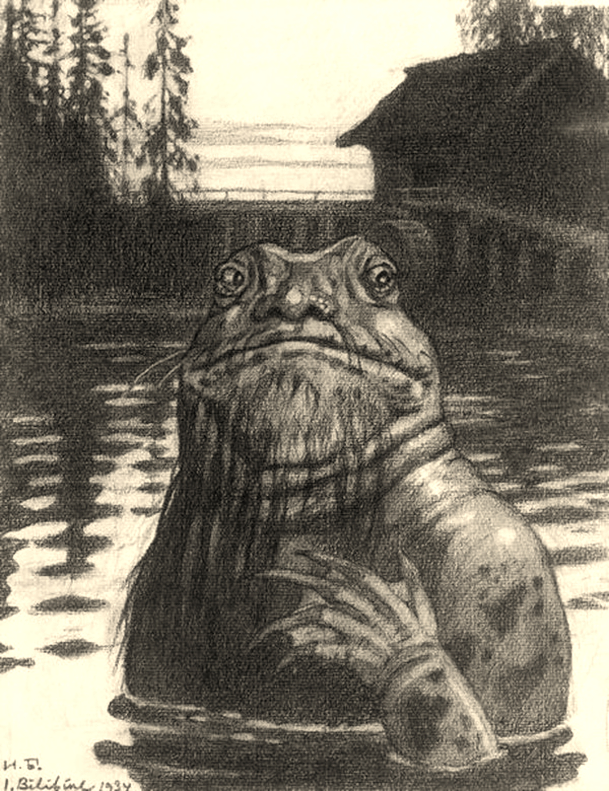 An illustration Vodyanoy, the Water Sprite.